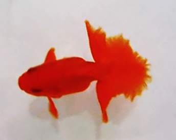 Tosakin or curly fantail goldfish.